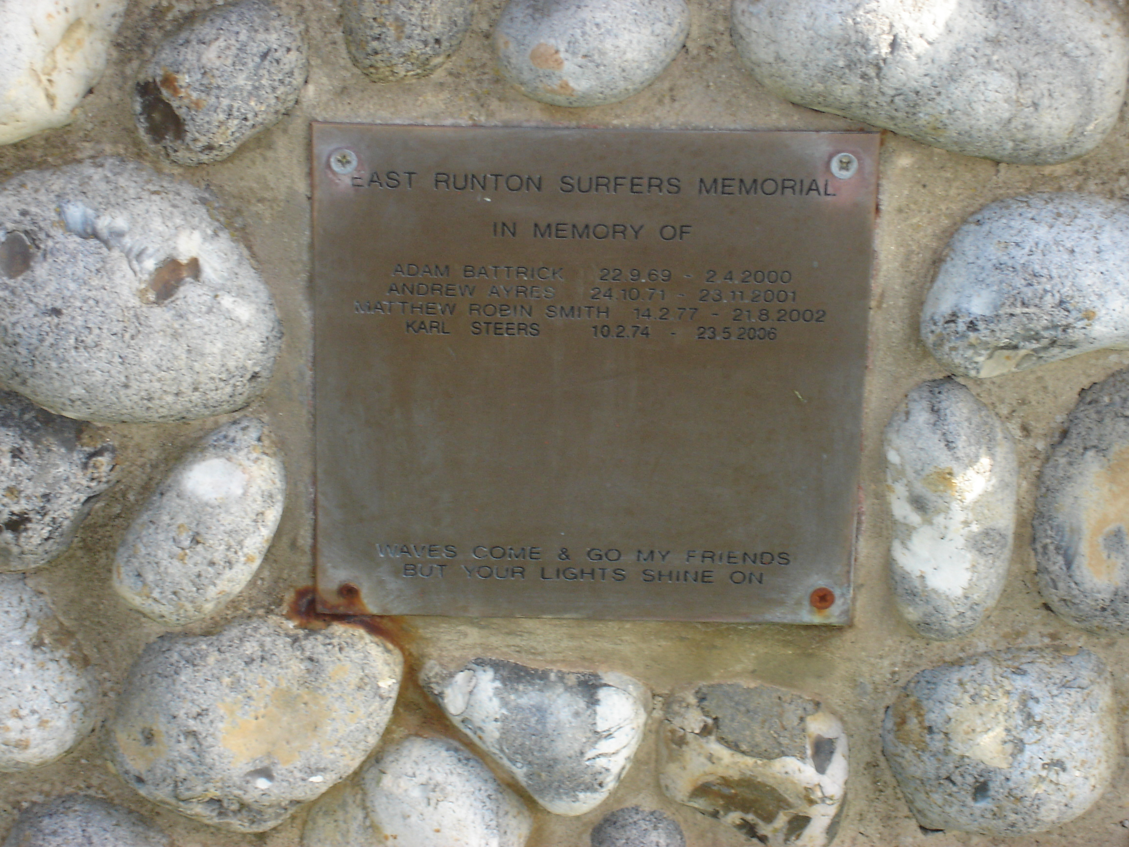 Photo of plaque on the Surfers' Memorial at East Runton, Norfolk